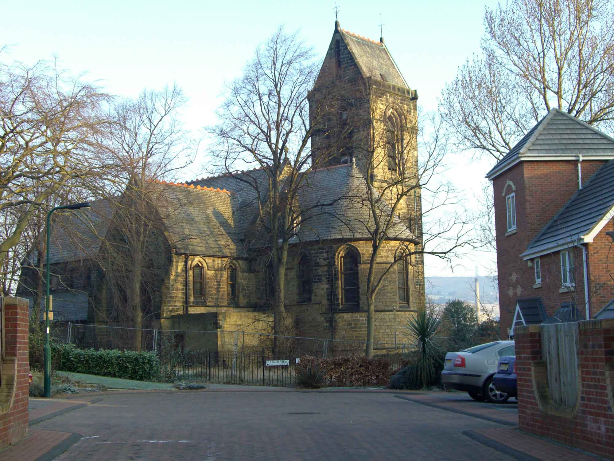 Middlewood Church, Wadsley Park Village, Sheffield, South Yorkshire, seen from the south